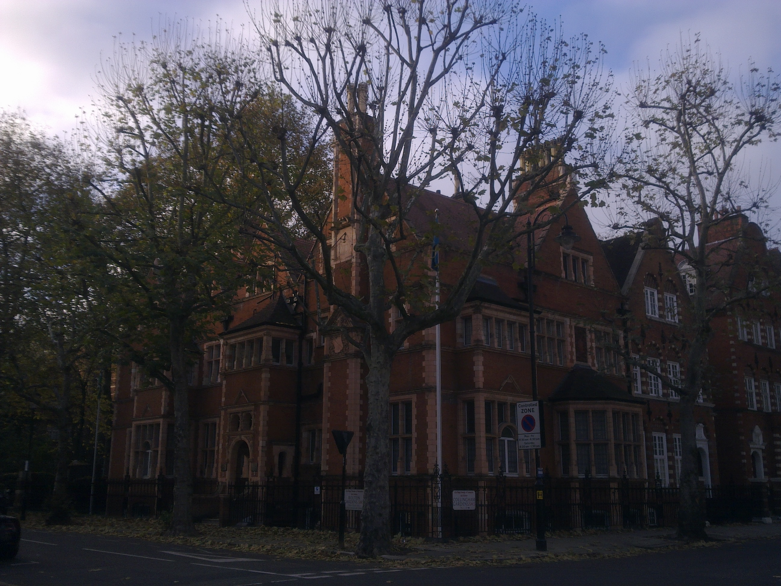 High Commission of Saint Lucia in London 1